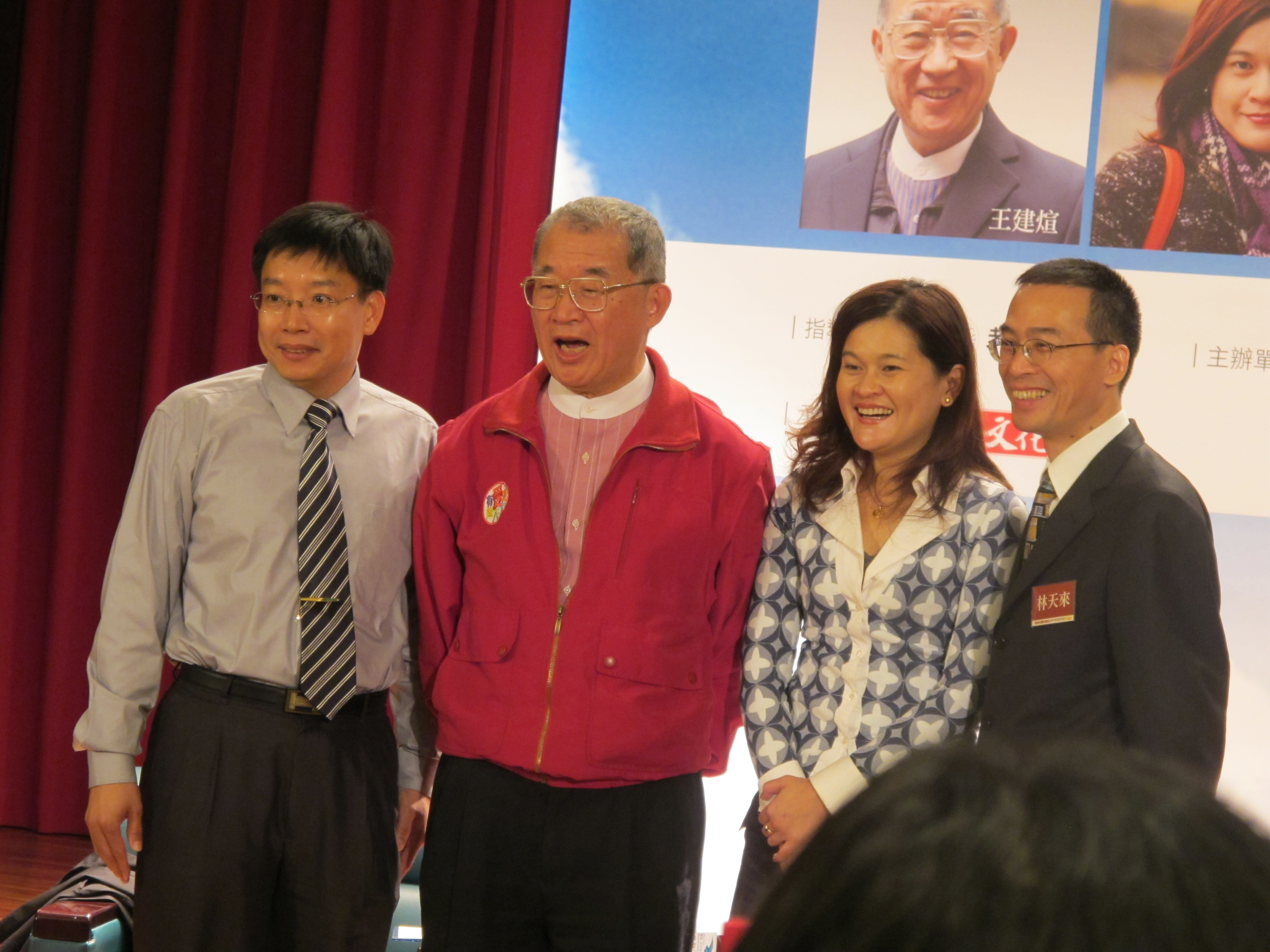 Wang Chien-shien, Yolanda Chenat, Lin Tien Lai etc. , at "Reading Ilan" Lecturing, sponsor: Global Views Educational Foundation.